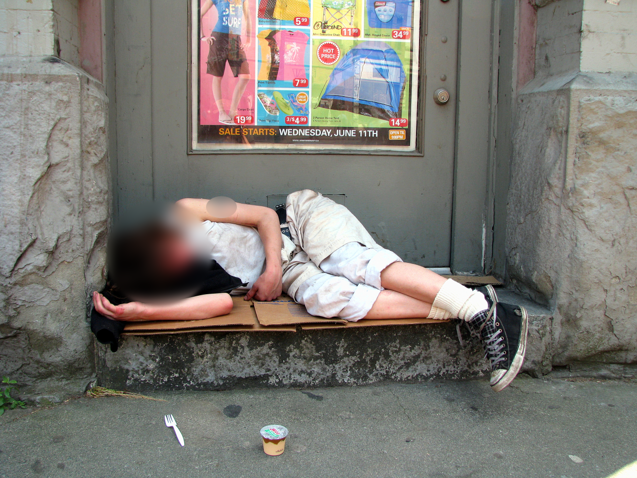 A person who is homeless sleeps on the public streets in Vancouver BC Canada; in the downtown eastside area.